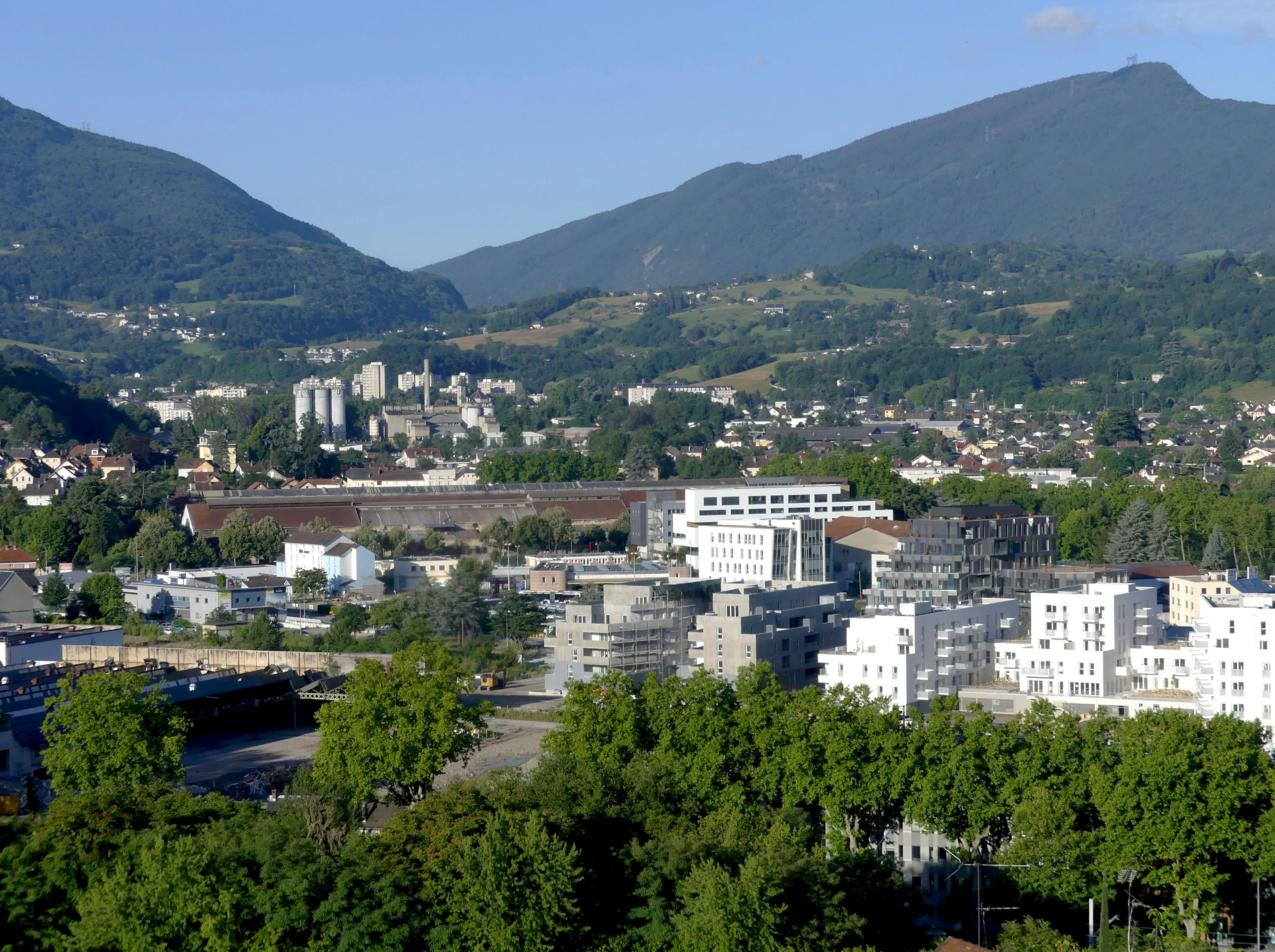 Sight of the Grand Verger industrial zone, in 2020 i.e during the demolitions of old industrial rights-of-way and during the construction of the new eco-friendly neighborhood, in Chambéry, Savoie, France.